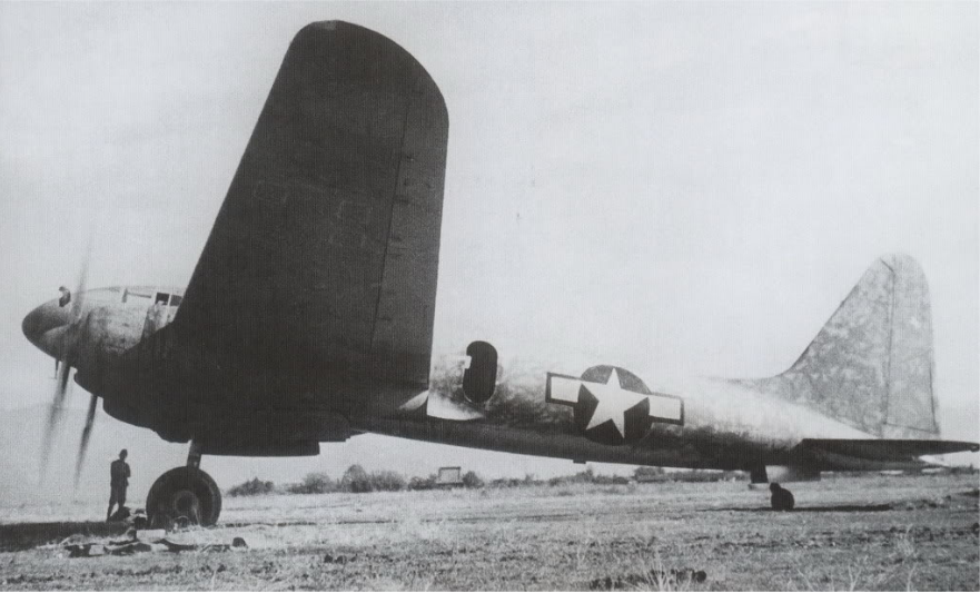 Tachikawa Ki-77 Japanese high speed long distance experimental pressurized cabin research aircraft